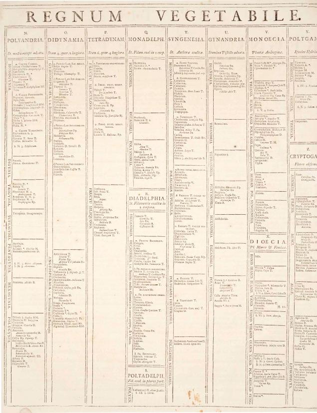 Regnum vegetabile. Page from: Caroli Linnaei, Sveci, Doctoris Medicinae systema naturae, sive, Regna tria naturae systematice proposita per classes, ordines, genera, & species. Lugduni Batavorum [Leiden, the Netherlands] :Apud Theodorum Haak :Ex Typographia Joannis Wilhelmi de Groot, 1735.